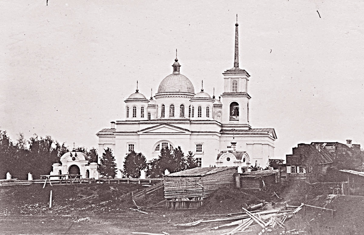 Bogolyubskaya Church in Kazan